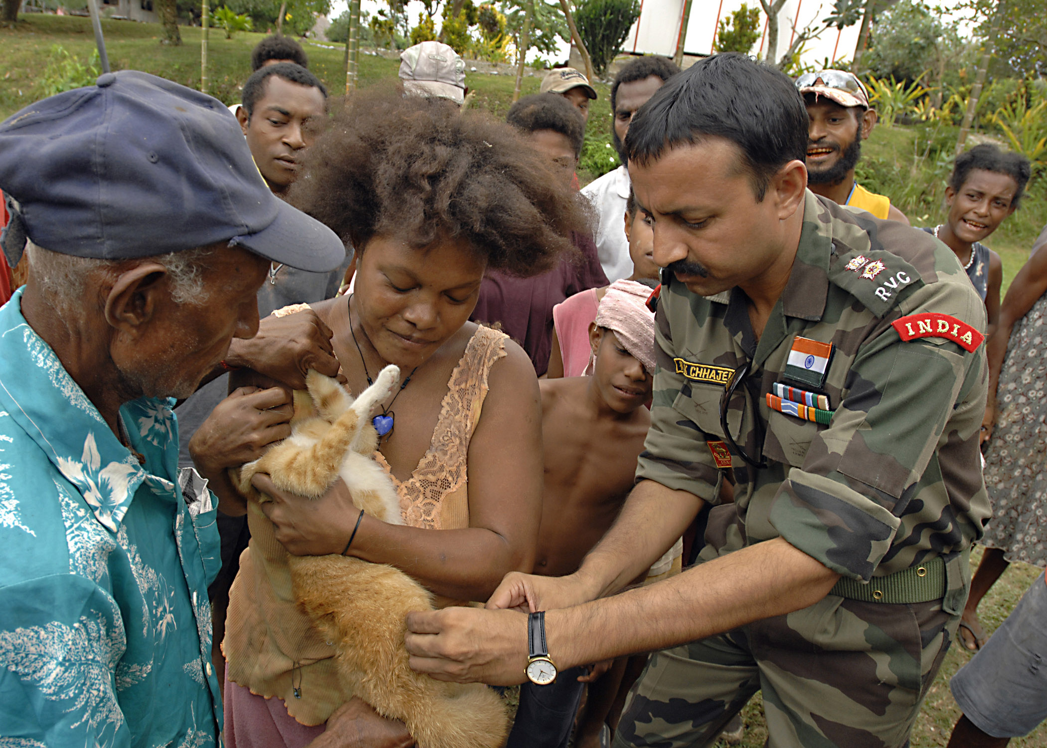 MADANG, Papua New Guinea (Aug. 10, 2007) – Lt. Col. Raveesh Chhajed, a veterinarian from the Indian Army, gives a family cat a rabies vaccination while onlookers gather to see the procedure. The veterinary civil-assistance program (VETCAP) was in support of Pacific Partnership, a four-month humanitarian assistance mission. Along with regional partners and non-governmental organizations, the Pacific Partnership team is providing the local community with a wide range of assistance. U.S. Navy photo by Mass Communication Specialist 3rd Class Bryan M. Ilyankoff (RELEASED)